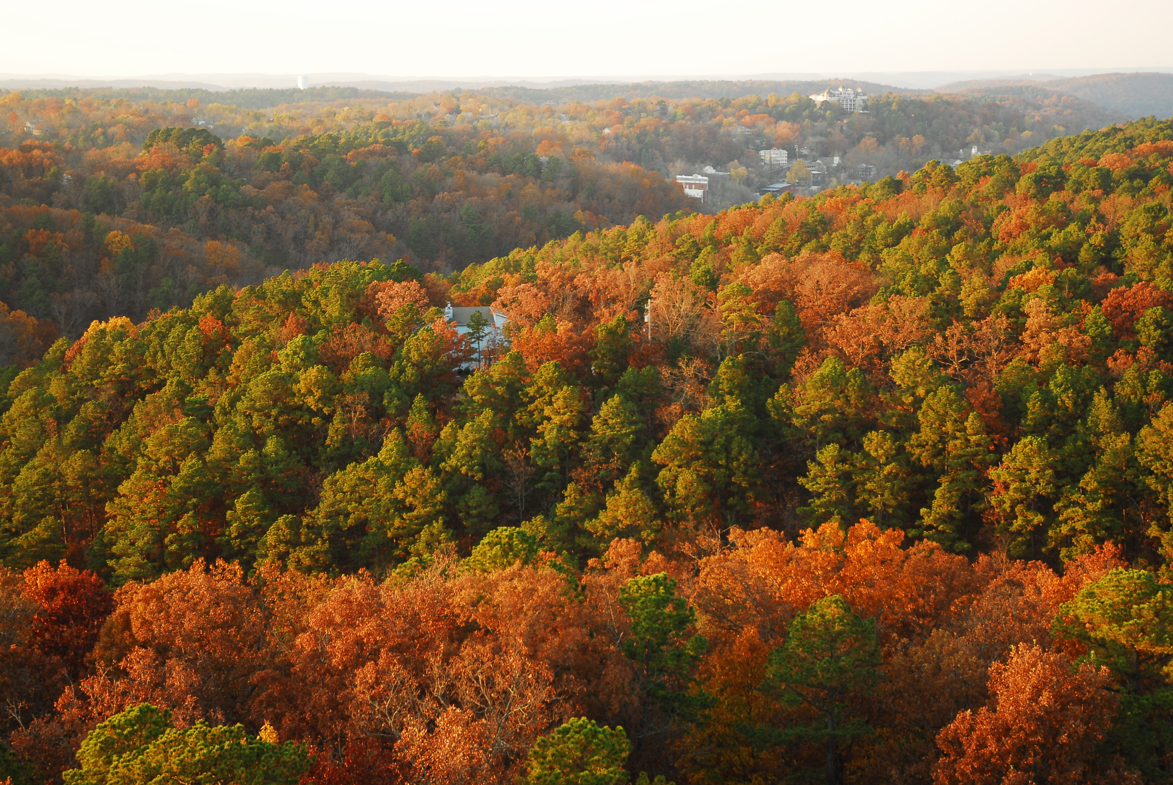 Eureka Springs as seen from one of the observation towers located on the outskirts of the town